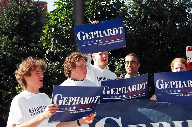 Democratic National Committee Fall Meeting at the Washington Marriott Wardman Park Hotel at 2660 Woodley Road, NW, Washington DC on Friday, 3 October 2003 by Elvert Barnes Protest Photography Richard Gephardt for President 2004 Elvert Barnes PROTEST PHOTOGRAPHY at